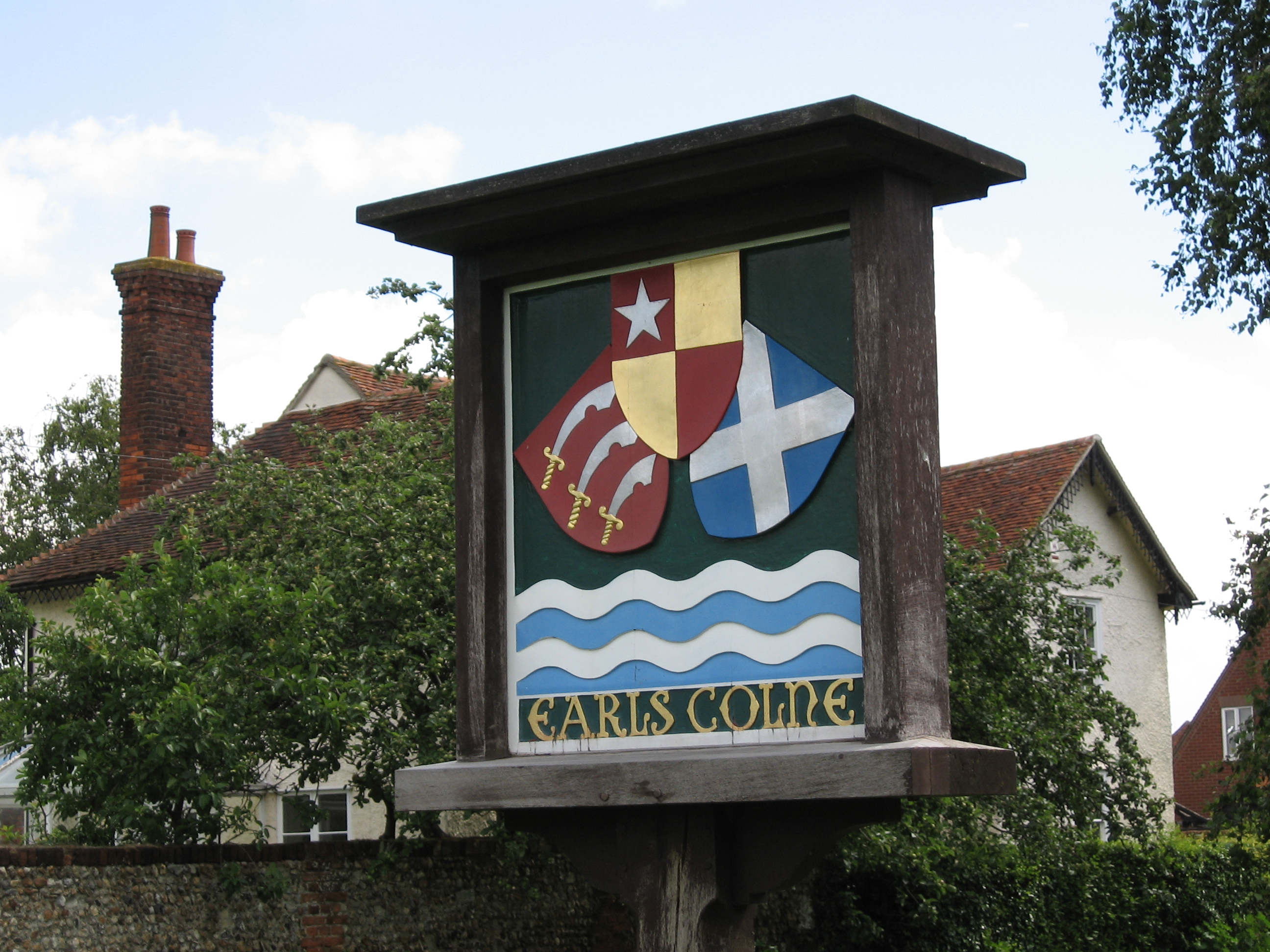 Earls Colne (UK) Heraldry: left arms of the County of Essex, center arms of the de Vere family (Earls of Oxford and lords of the manor of Earls Colne), right arms of Saint Andrew (to whom the parish church is dedicated)